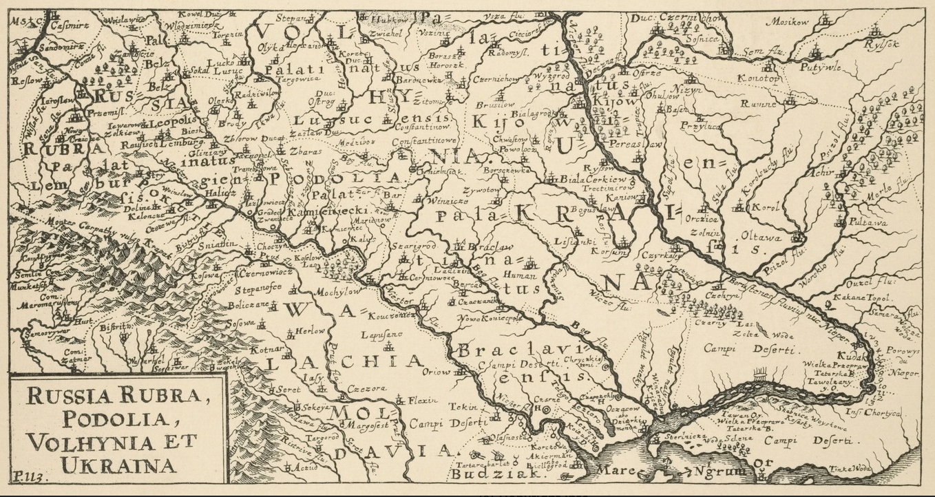 Map of historical Russian regions under Polish occupation: Red Russia, Podolia, Volhynia and Ukraine. Jakob von Sandrart, Nuremberg, 1687